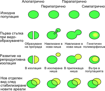 Modification of Image:Speciation_modes.svg and Image:Speciation_modes_bg.svg